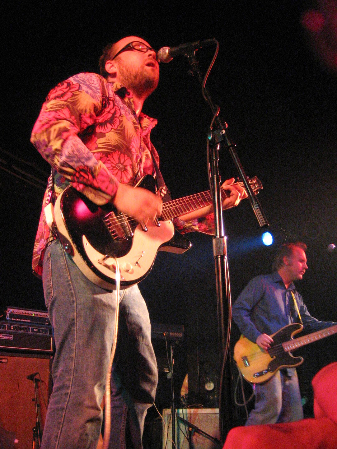 Power pop group The Apples In Stereo performing at the Washington, D.C. nightclub Black Cat, photographed in October 2006 by joelogon. Note that this picture was taken at the same time as File:Robert Schneider.jpg